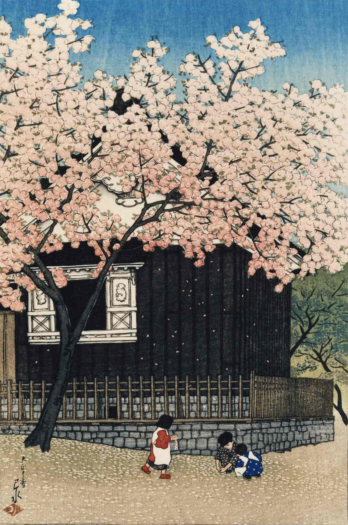 Atagoyama in Spring (Haru no Atagoyama), from the series Twelve Scenes of Tōkyō (Tōkyō jūnidai), woodblock print